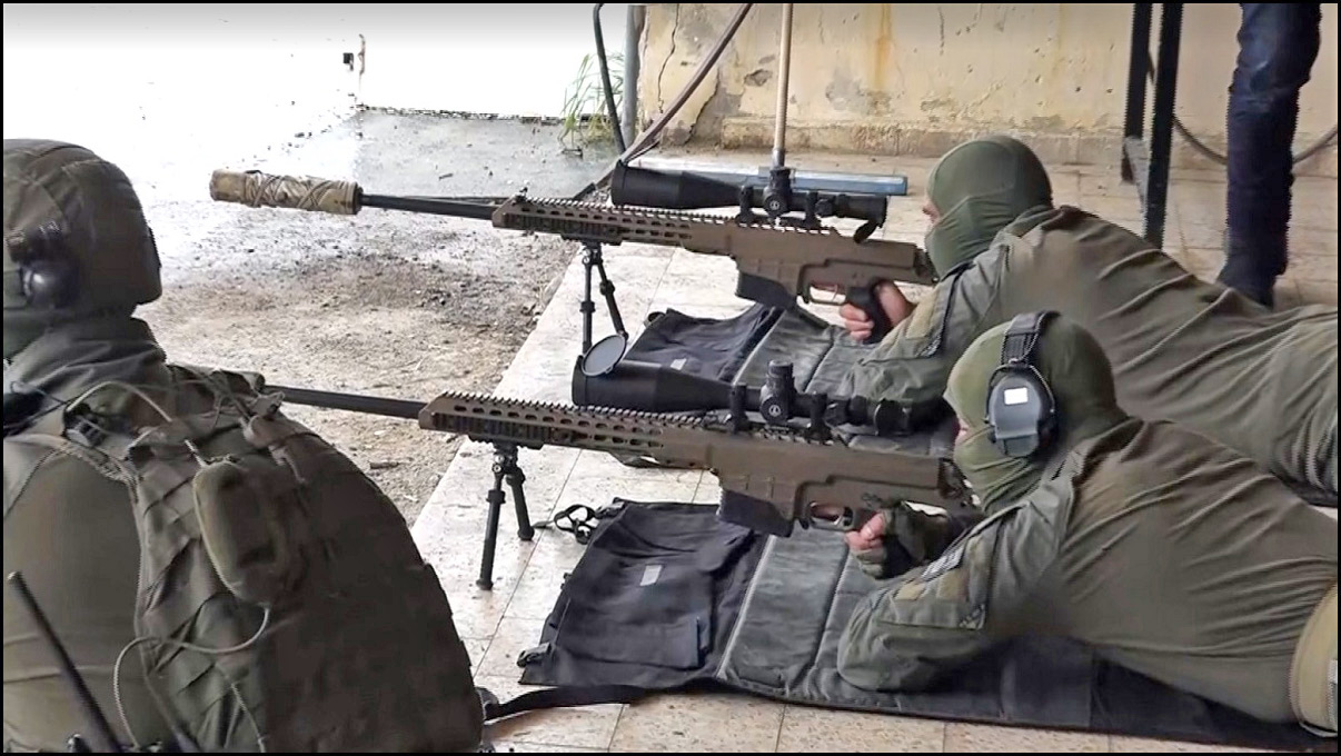 YAMAM (Israel's Counter-Terrorisn Unit) snipers with Barrett MRAD sniper rifle